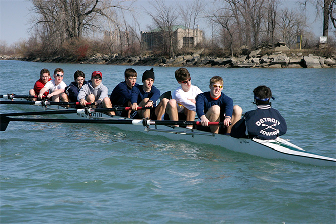 This photo, taken April, 2004 is of a Boys Lightweight 8+ from the Detroit Boat Club. The boat consists of Christopher Renema, Brennen Brophy, Daniel Sheppard, Robert Heide, Colin Edwards, Brandon Koch, Stephen Lambers, Matthew Johnson. It was taken by Daniel Cyr.